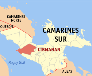 Map of Camarines Sur showing the location of Libmanan